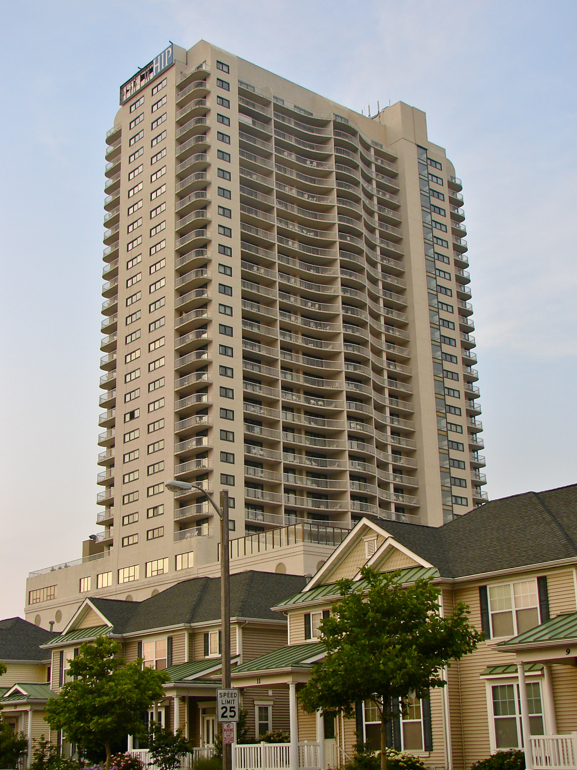 The Flagship Resort (sans Flag) at 60 North Maine Avenue, Atlantic City, New Jersey. Coords 39.37022°N 74.412718°W. 32 stories, built 1988